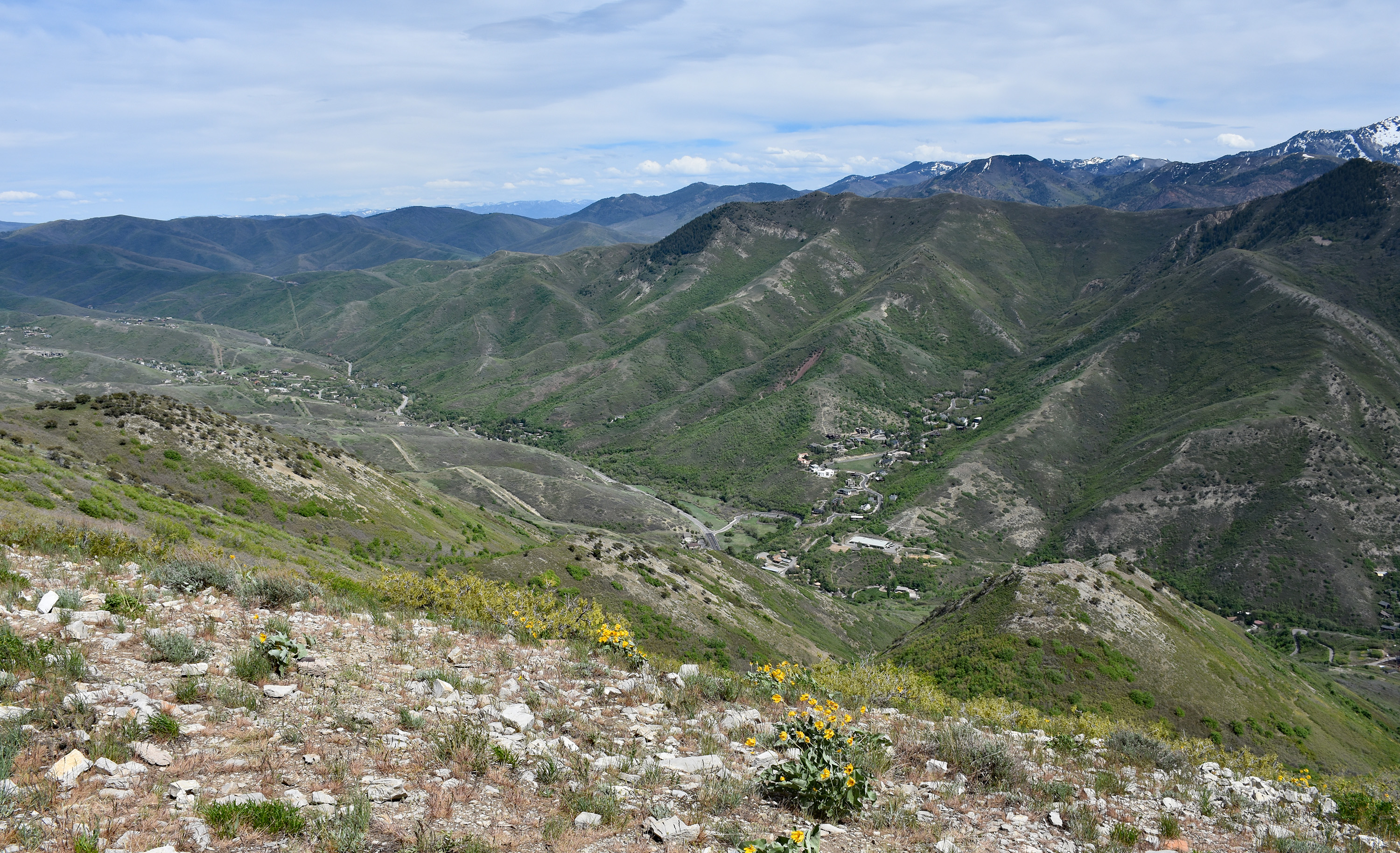 View from the top of Mount Wire looking into Emigration Canyon, Utah.